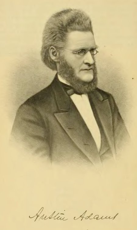 Portrait in History of Iowa From the Earliest Times to the Beginning of the Twentieth Century